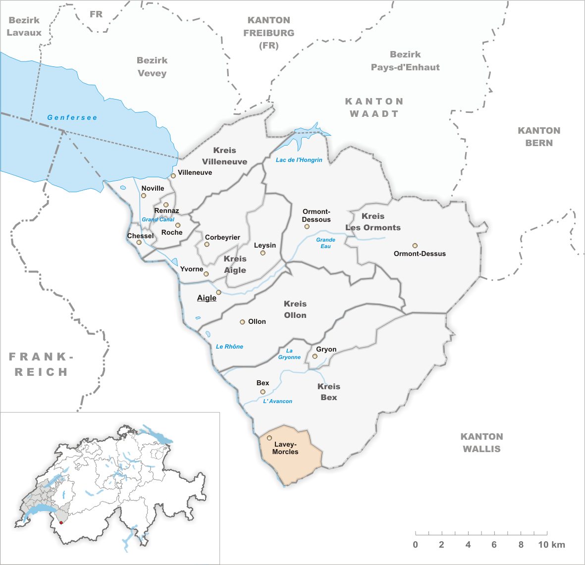 Municipality Lavey-Morcles